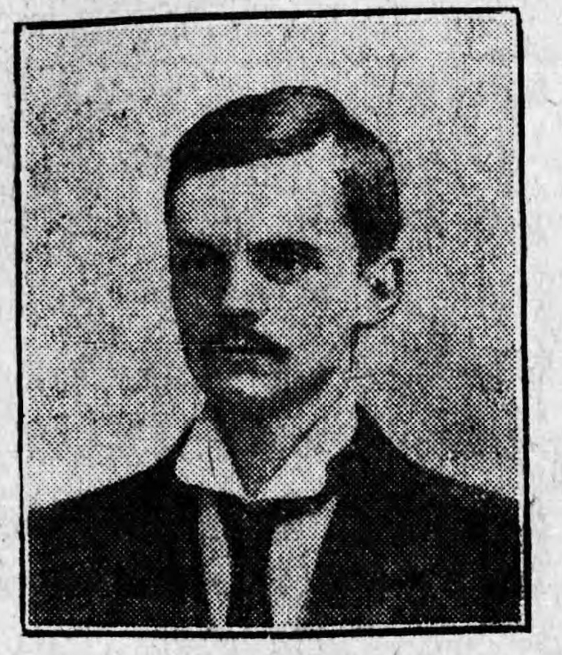 Sir Edgar Rees Jones KBE (27 August 1878 – 16 June 1962) Barrister and MP for Merthyr 1910-1922